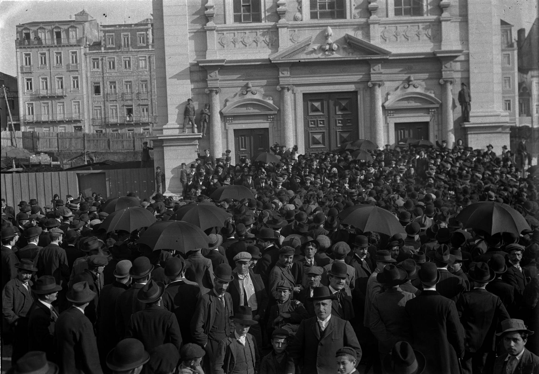 Demonstration in Lisbon, Portugal, against the banishment of the "Chinese of the Worms" (a pair of Chinese healers that were banned from illegally practising medicine), 26 November 1911.